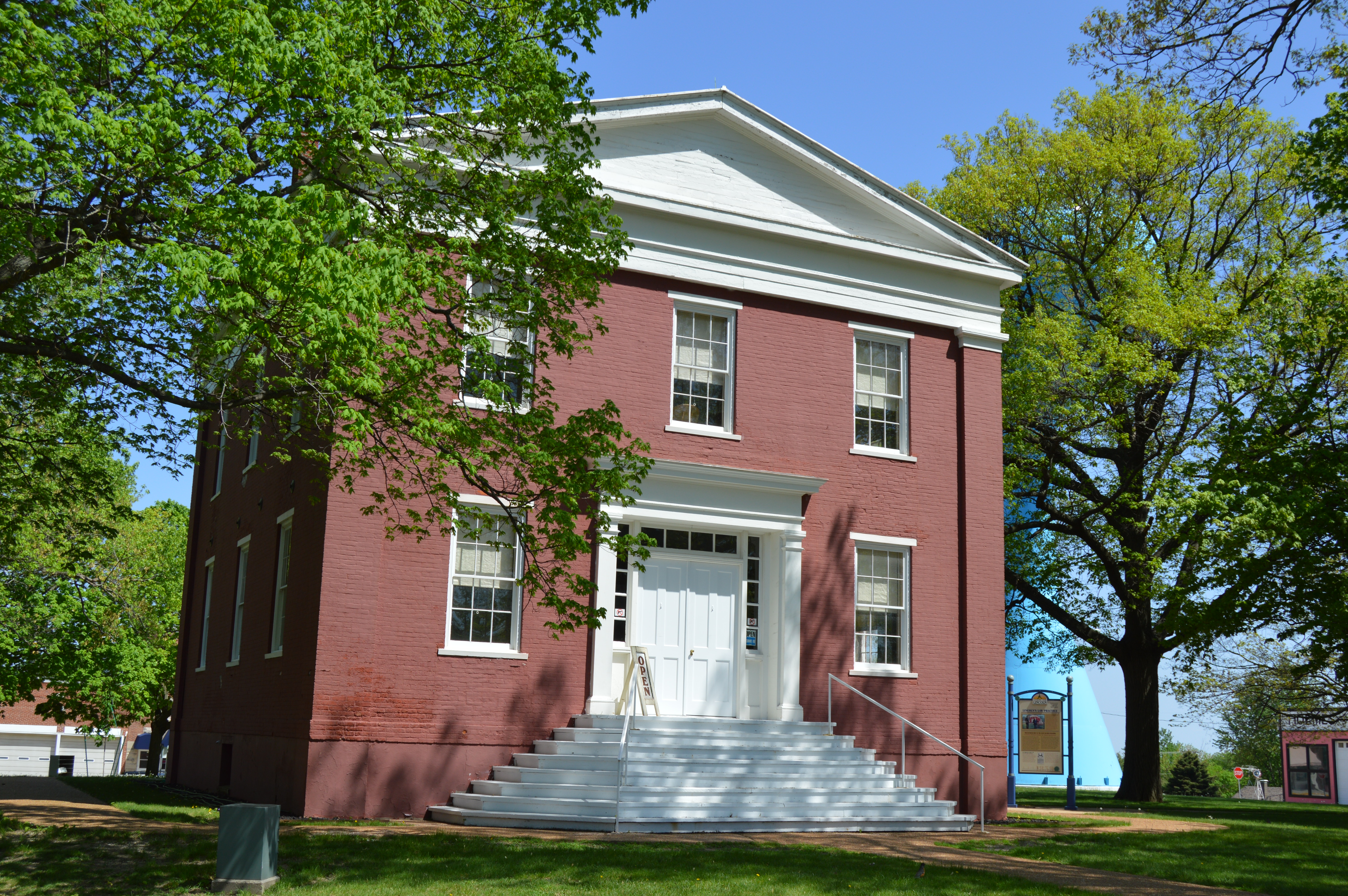 Western front, seen from the north, of the Mount Pulaski Courthouse State Historic Site, located on the public square in Mount Pulaski, Illinois, United States. Built in 1847, it is listed on the National Register of Historic Places.